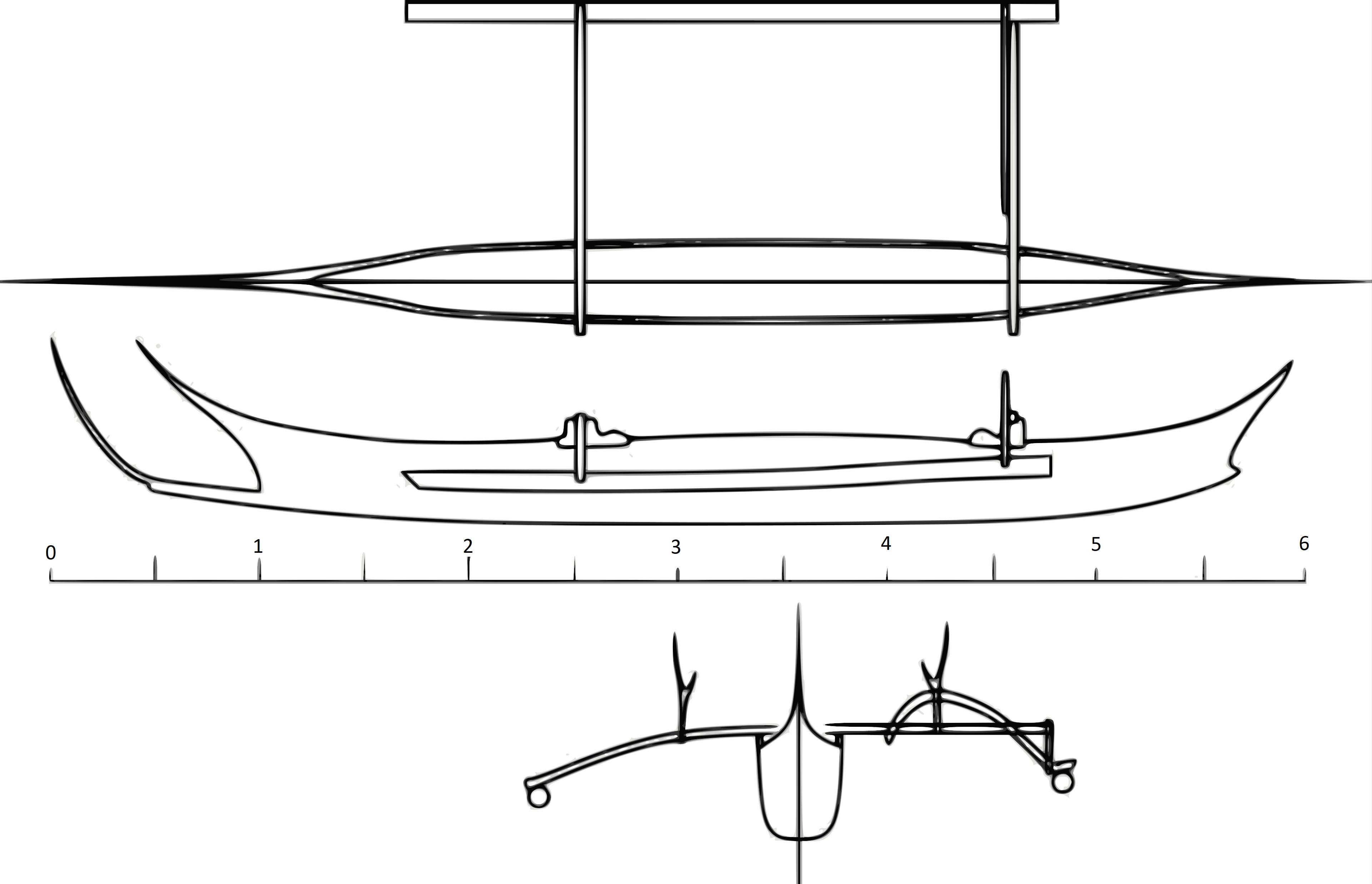 The type of londe from Sangir island.This vector image is a reproduction of an image by Aziz Salam.